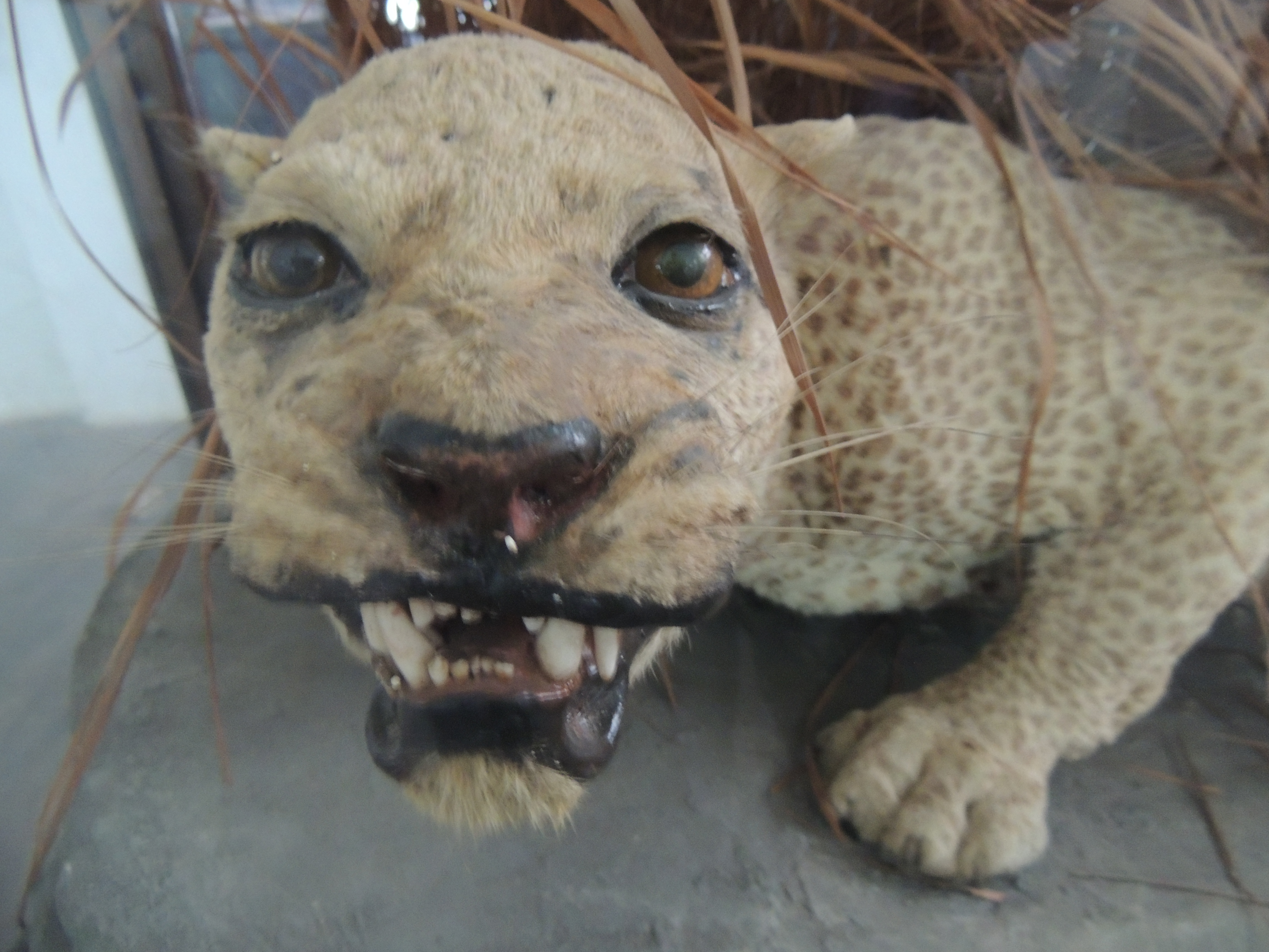 The Zanzibar Leopard (Panthera pardus adersi) in the Zanzibar Natural History Museum in Zanzibar City (or Zanzibar Town), Zanzibar (Tanzania). Now most likely extinct.